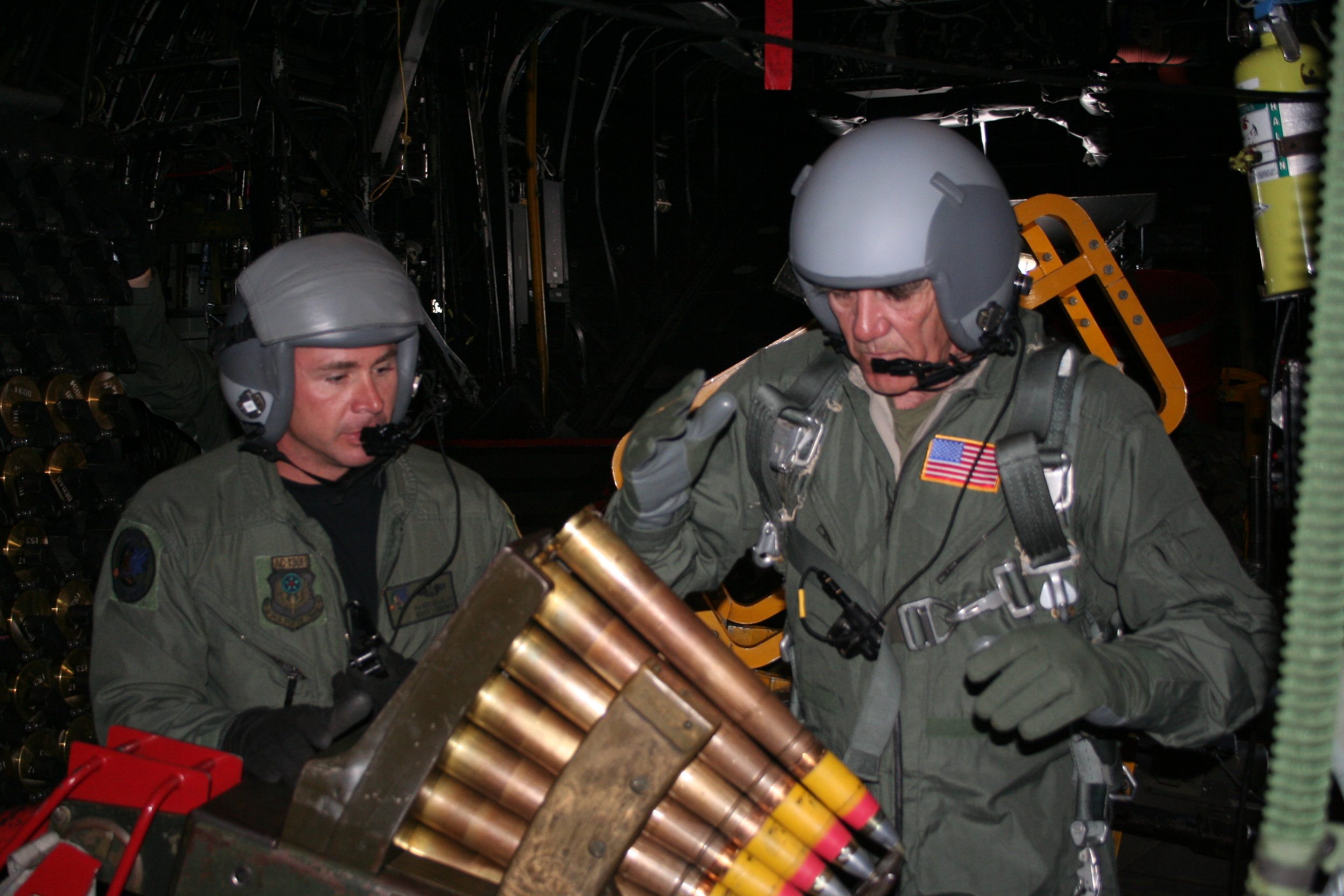 Master Sgt. Randy Scanian, 16th Special Operations Squadron (left), watches as the U.S. Marine Corps Gunnery Sgt. R. Lee Ermey (right), loads the 40mm gun of an AC-130H gunship.